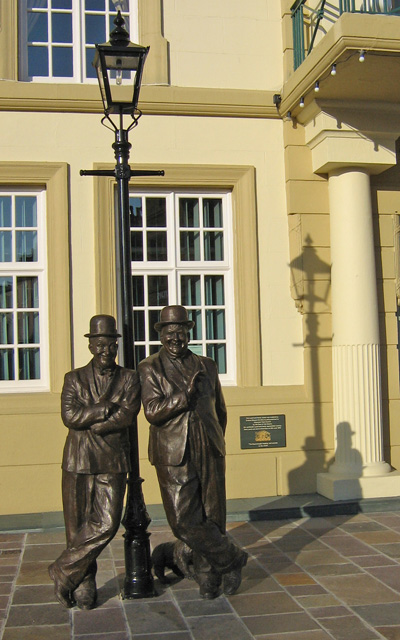 Laurel & Hardy statue This statue was created by Graham Ibbeson and stands outside the Coronation Hall. It was unveiled by Ken Dodd in April 2009.